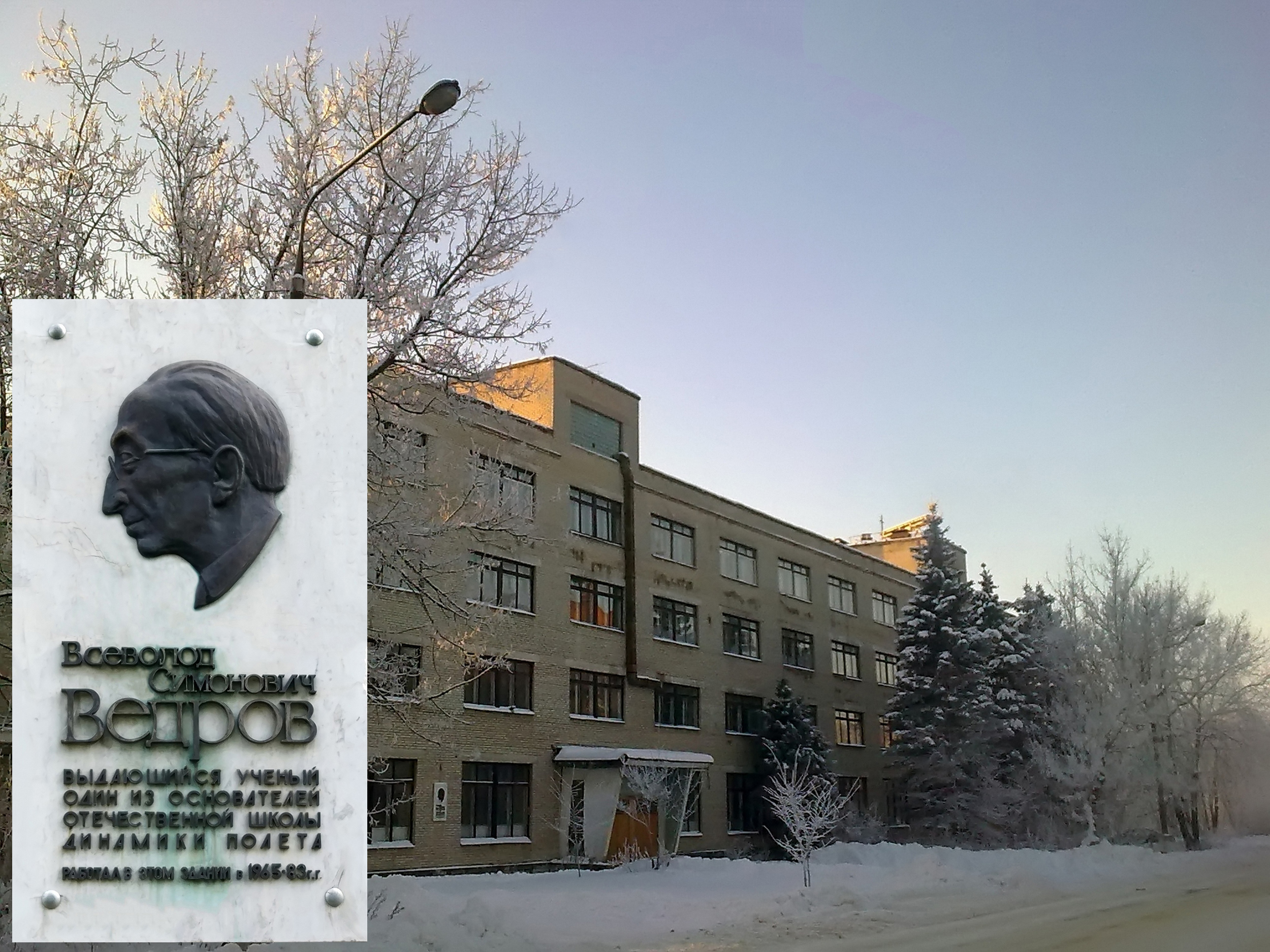 Vsevolod Vedrov memorial plate on the Gromov Flight Research Institute building where he worked